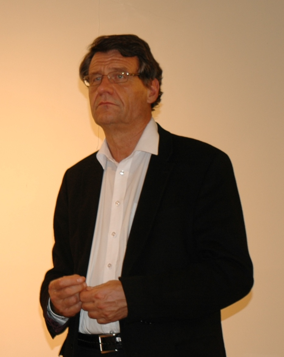 Cato Schiøtz, Norwegian lawyer.